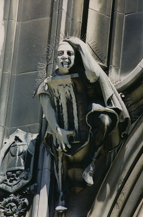 Architectural sculptures — on the Detroit Masonic Temple by architect George Mason Taken from Architectural Sculpture in America, unpublished manuscript. Photo by Einar Einarsson Kvaran aka Carptrash 05:43, 3 February 2007 (UTC) .